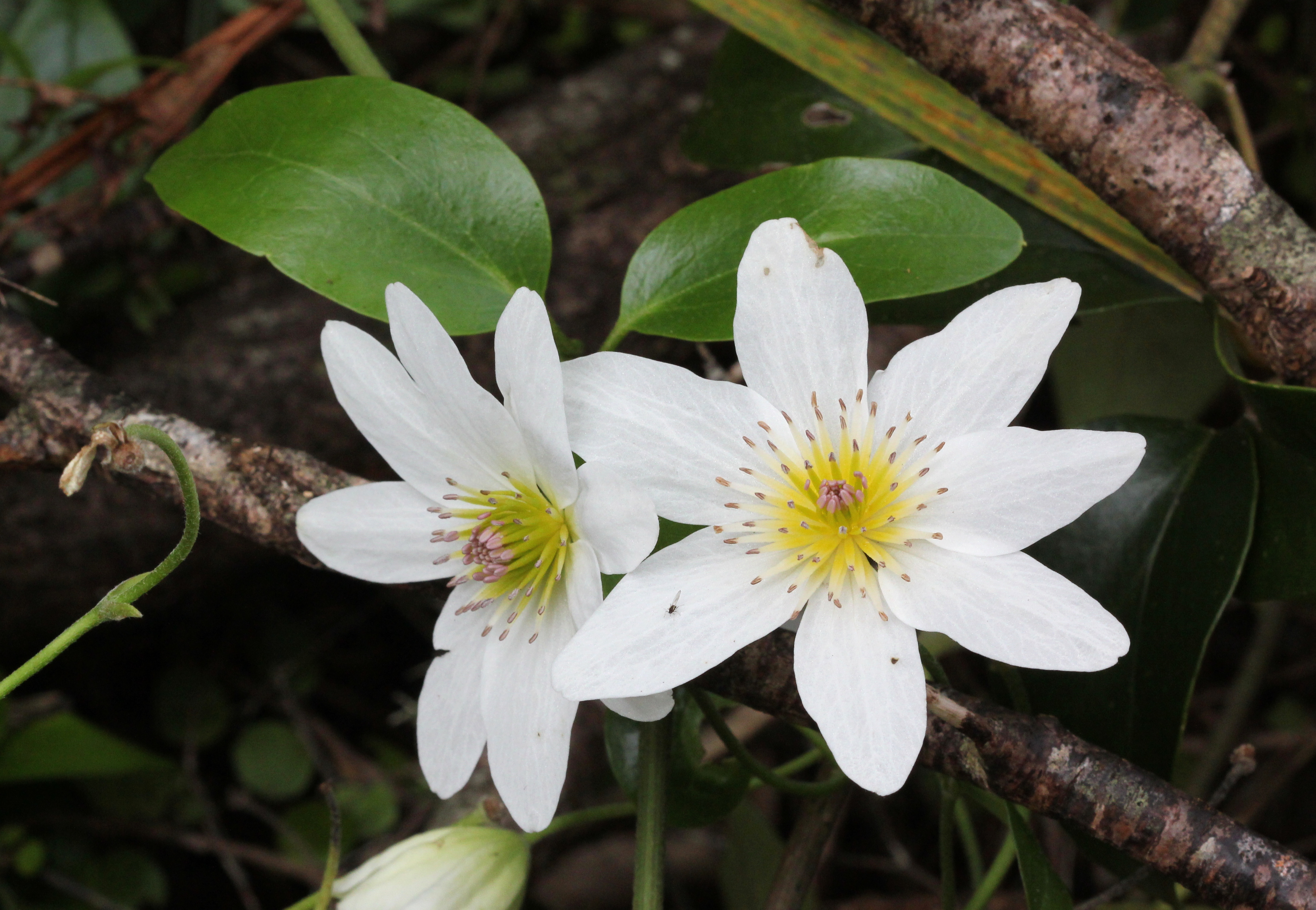 Puawhananga (Clematis_paniculata) flowers and leaves. The vine was growing wild in the Waitakere Ranges, near Auckland, New Zealand, and the tree it was growing up had recently fallen to the ground.